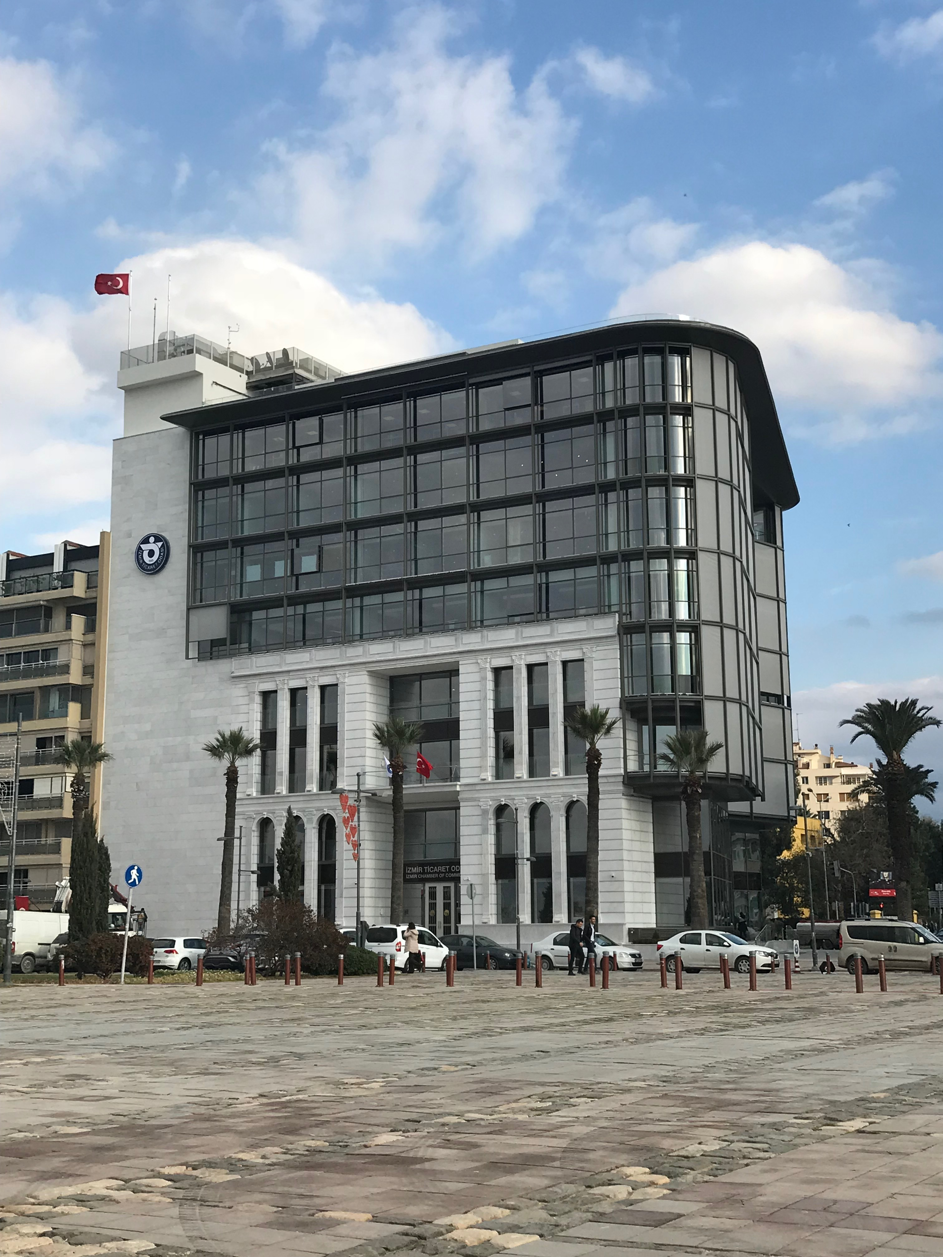 Headquarters of İzmir Chamber of Commerce in Turkey. Аҧсшәа: İzmir Ticaret Odasının Konak'taki hizmet binası.